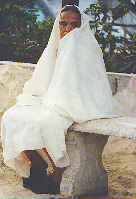 Female with white clothing Tunisia